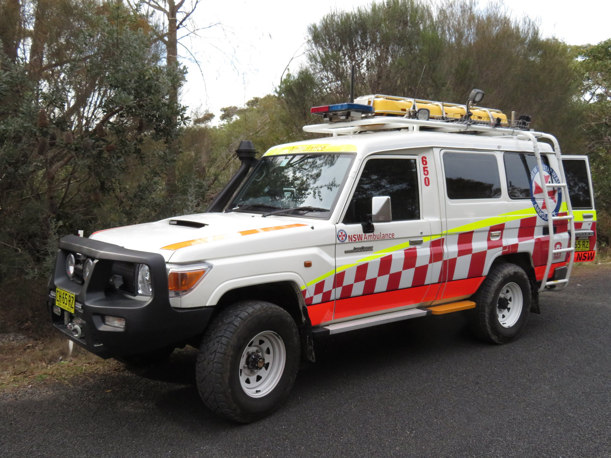 New South Wales Ambulance Toyota Landcruiser 4WD Remote Access Ambulance 650